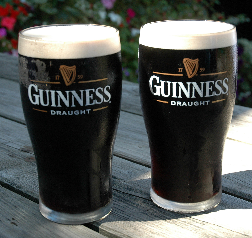 2 pints of Guinness